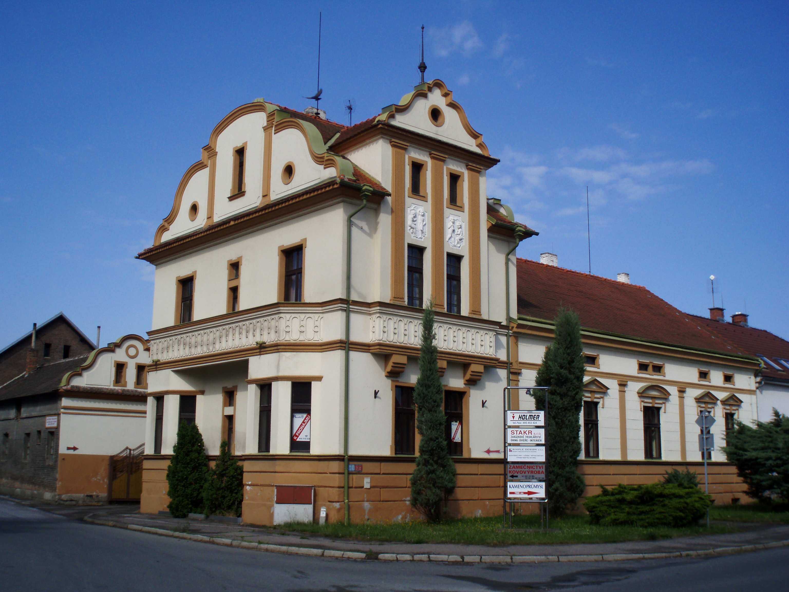 Traditional architecture in Stezery (District of Hradec Kralove)